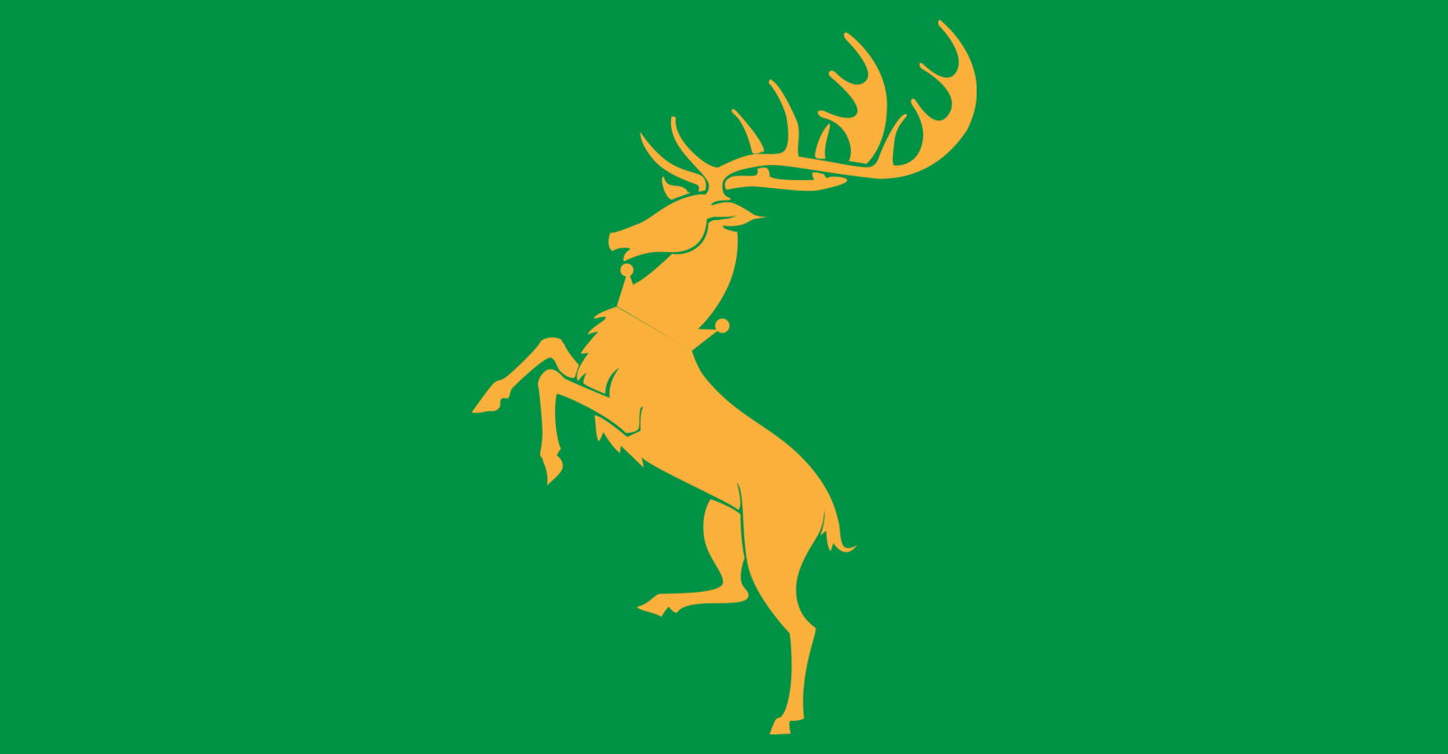 Flag of House Baratheon of Storm's End under King Renly in the fantasy series Game of Thrones (in the novel series A Song of Ice and Fire by George R. R. Martin he uses the same as his brother King Robert Baratheon).